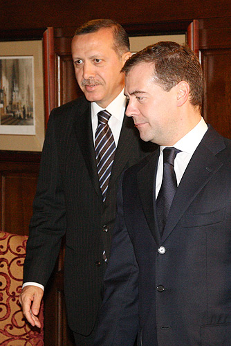 MEIENDORF CASTLE, MOSCOW REGION. With Turkish Prime Minister Recep Tayyip Erdogan.